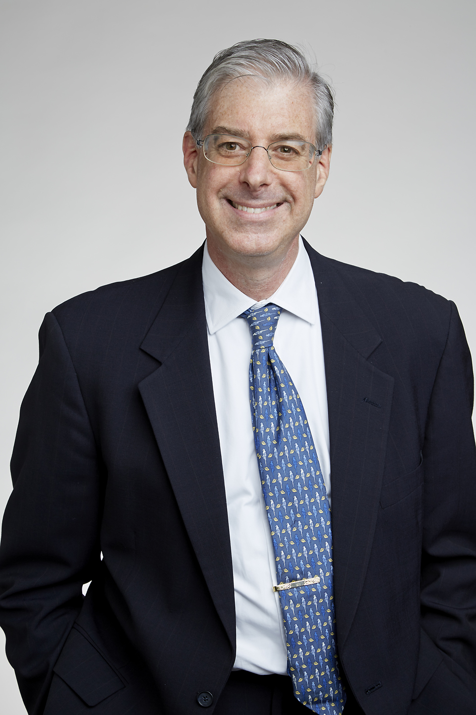 Steven Andrew Balbus FRS (born 23 November 1953) is an American-born astrophysicist who is the Savilian Professor of Astronomy at the University of Oxford and a Professorial Fellow at New College, Oxford. In 2013, he shared the Shaw Prize for Astronomy with John F. Hawley. Attribution: The Royal Society